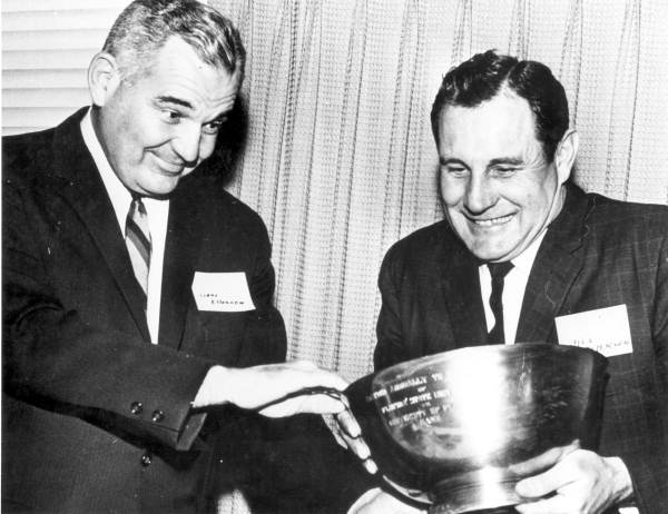 Coaches Gene Ellenson and Bill Peterson in 1961